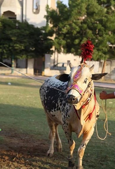 Male Dhanni cattle at Karachi